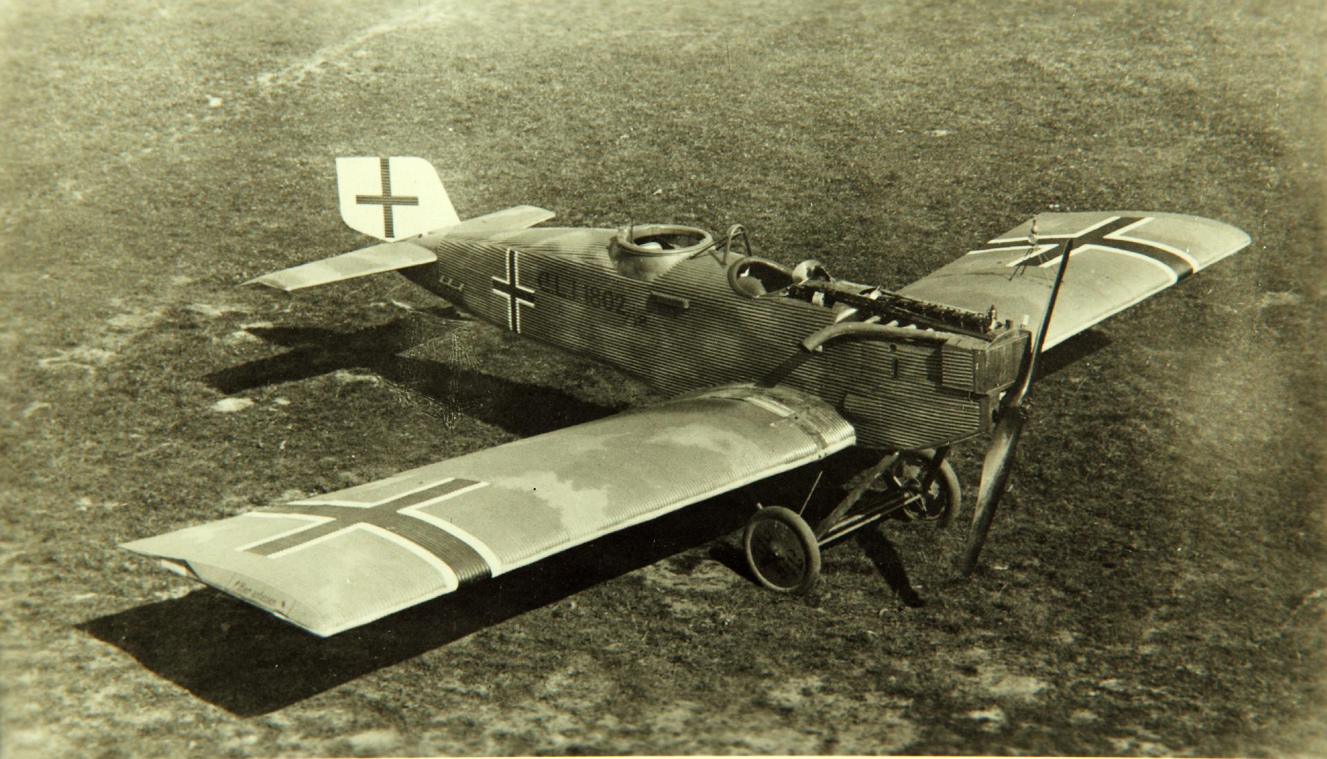 Junkers J10 (CL.1)